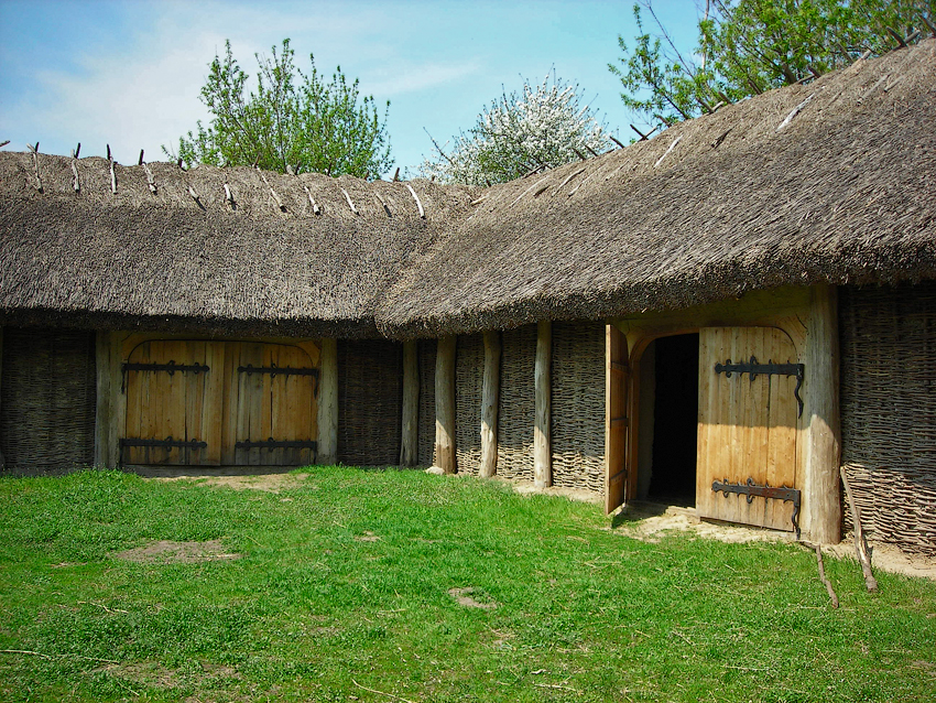 Конюшні для коней